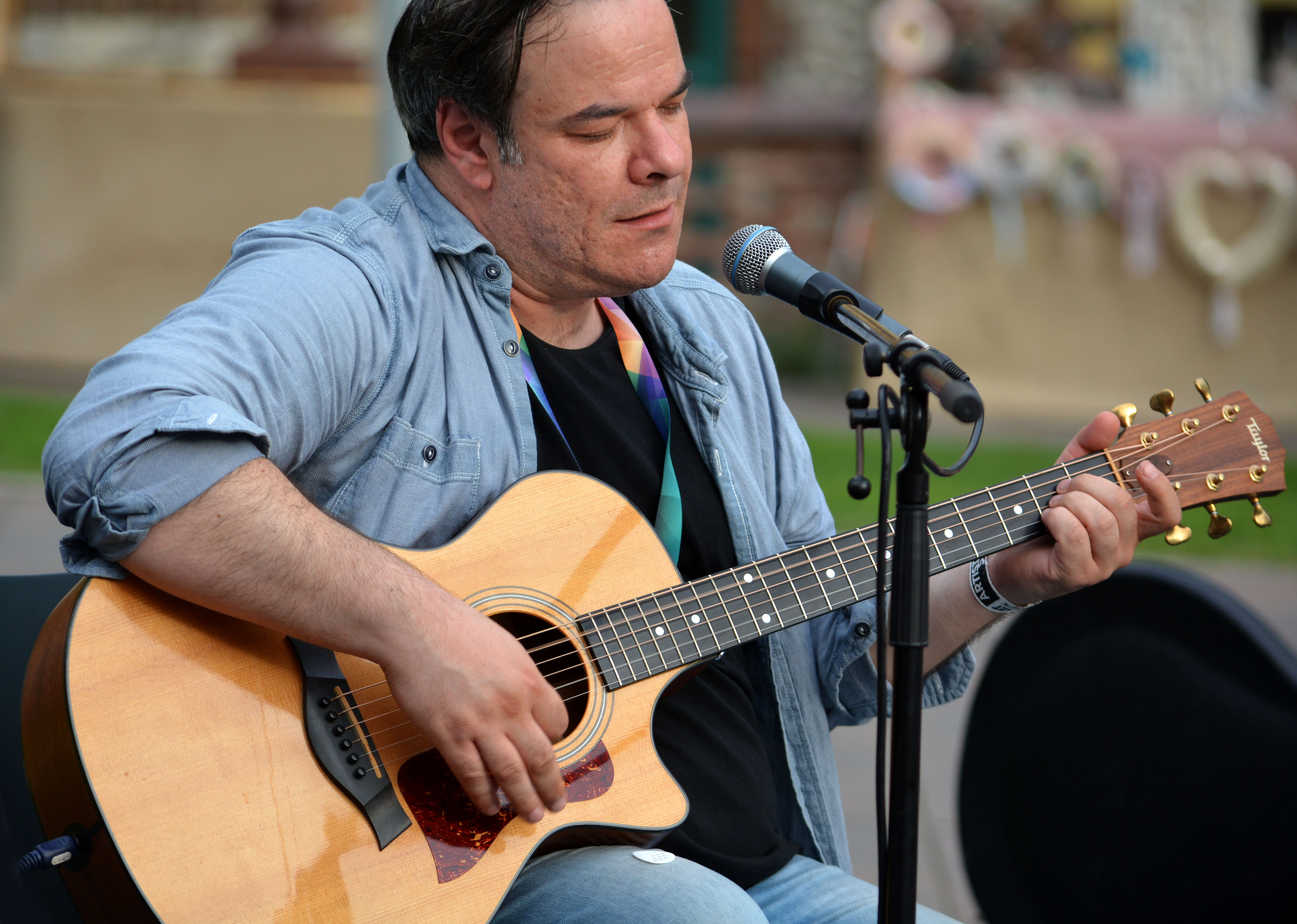 Kálloy Molnár Péter - Hungarian actor POSZT (Pécs National Theatre Festival) 2016